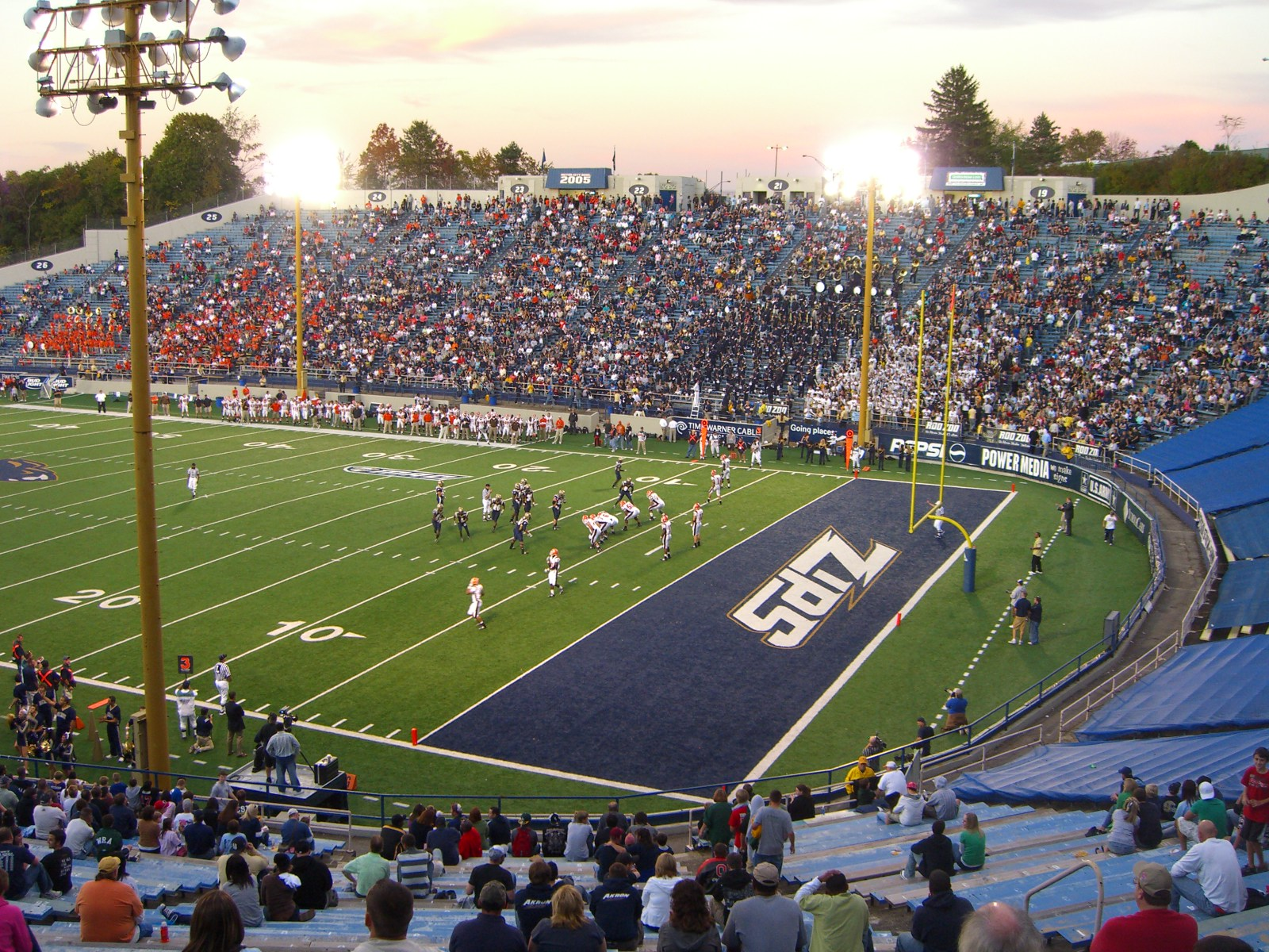 Akron Zips vs Bowling Green Falcons NCAA football game at the Rubber Bowl in Akron, Ohio.